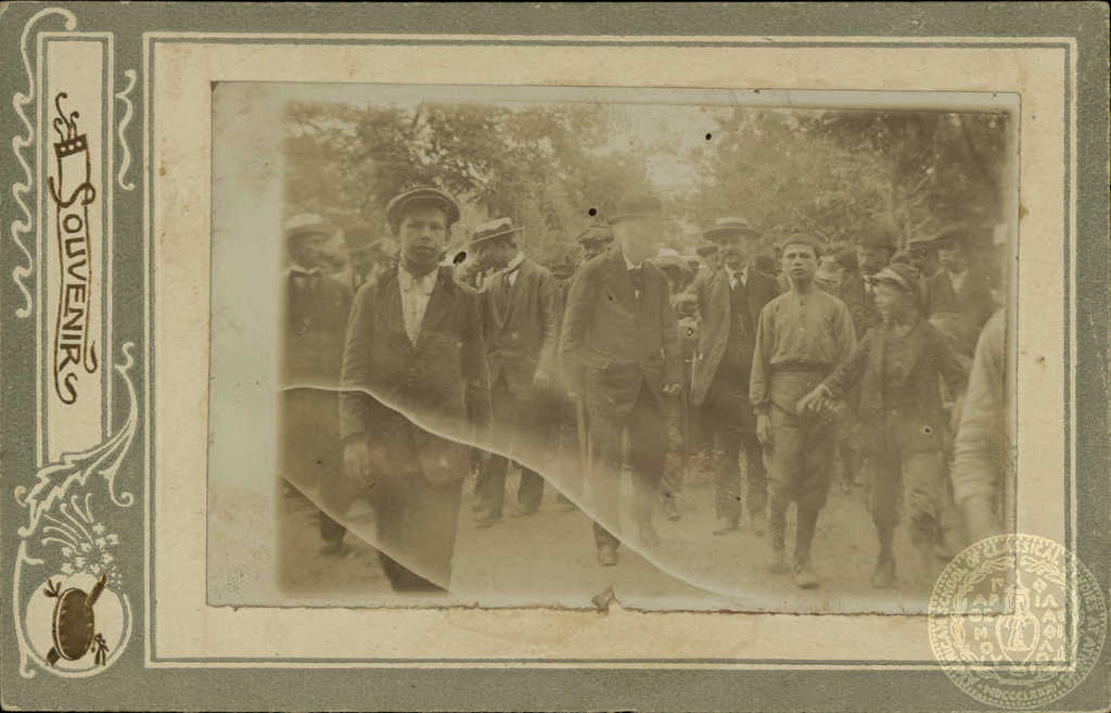 Stefanos Dragoumis in Voden, 1915